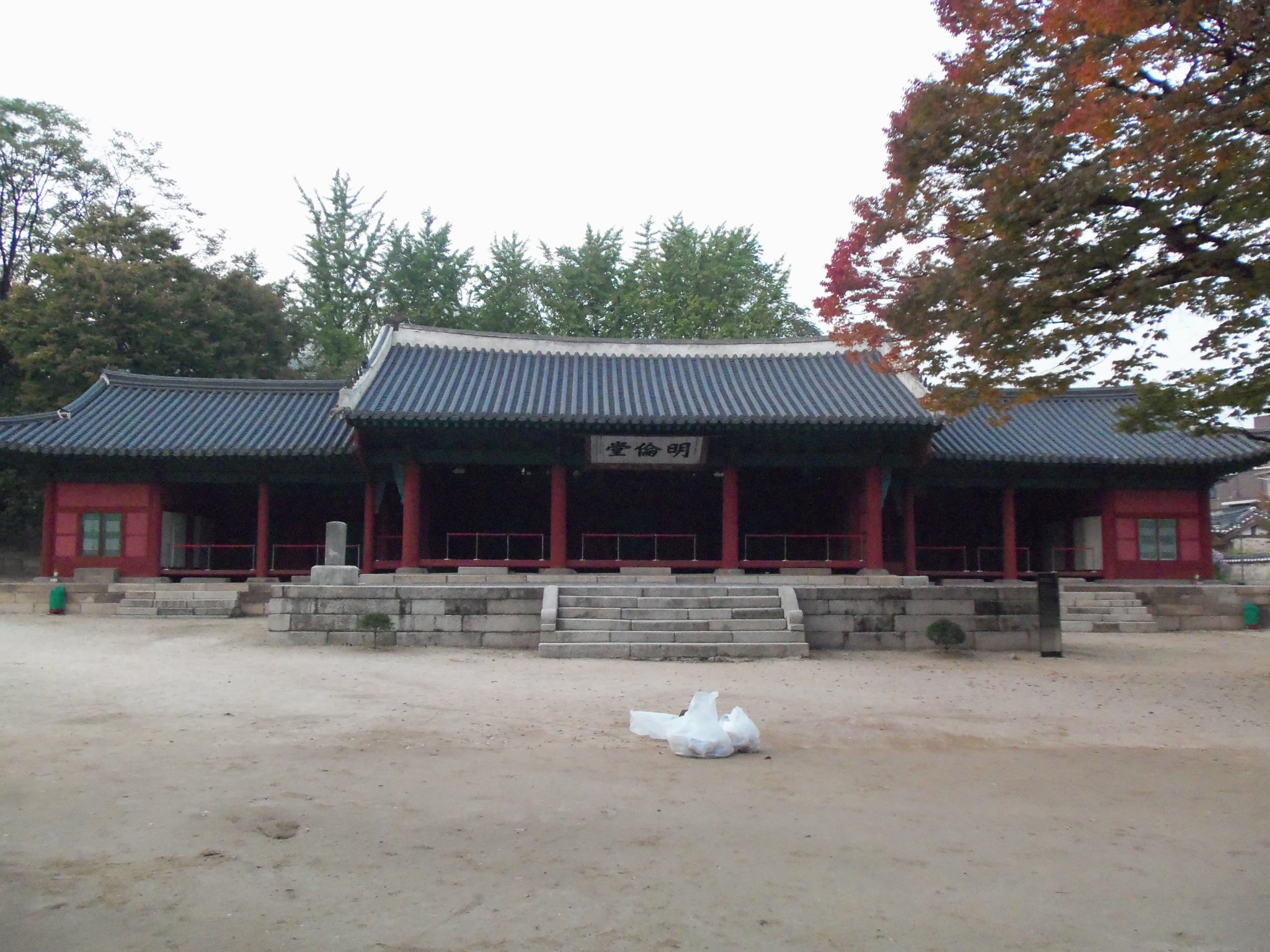 The lecture hall at the old Sungkyunkwan.